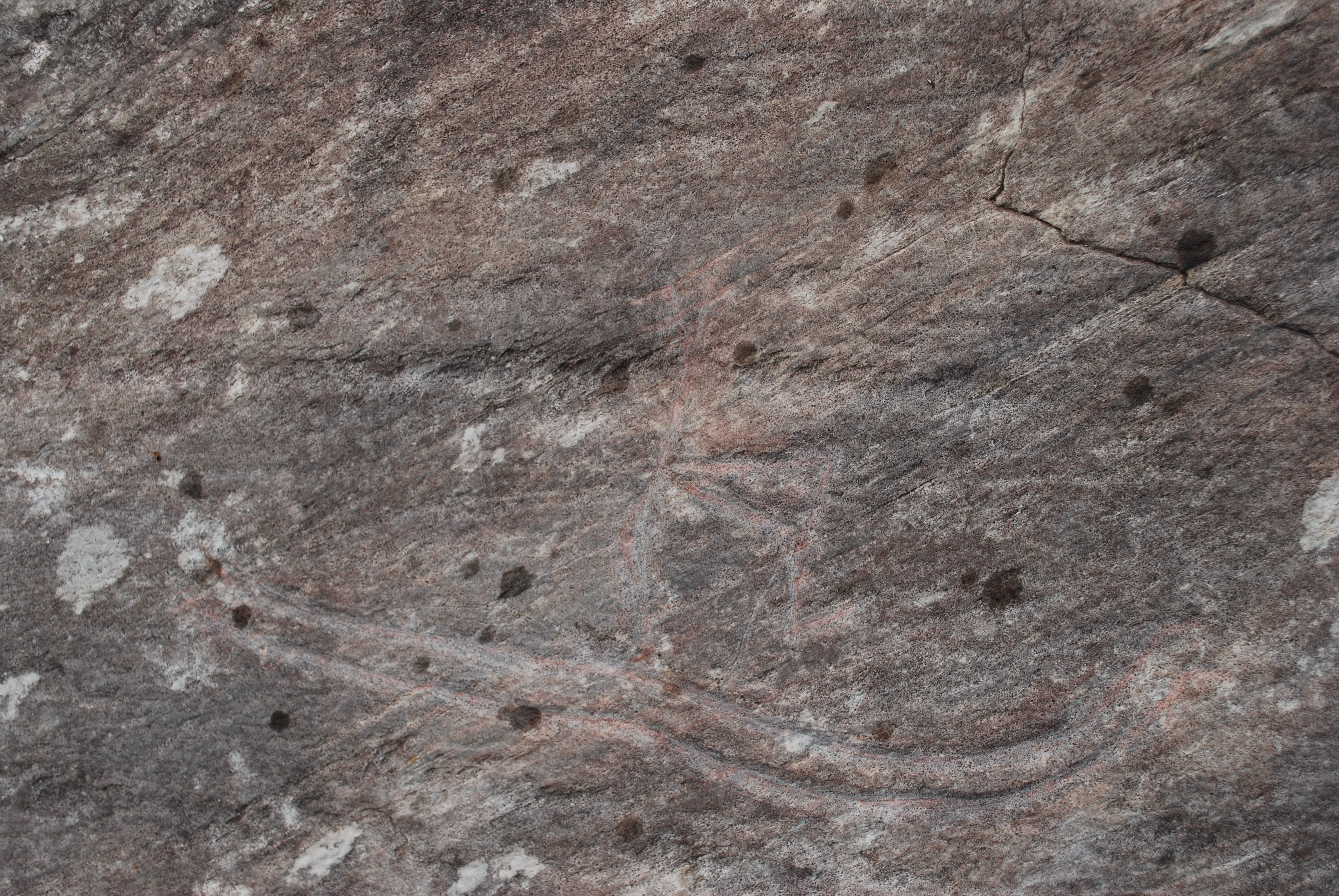 Pic from Tro and Flatøy in North of Norway.